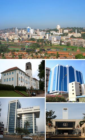 Kampala Sights and Sounds